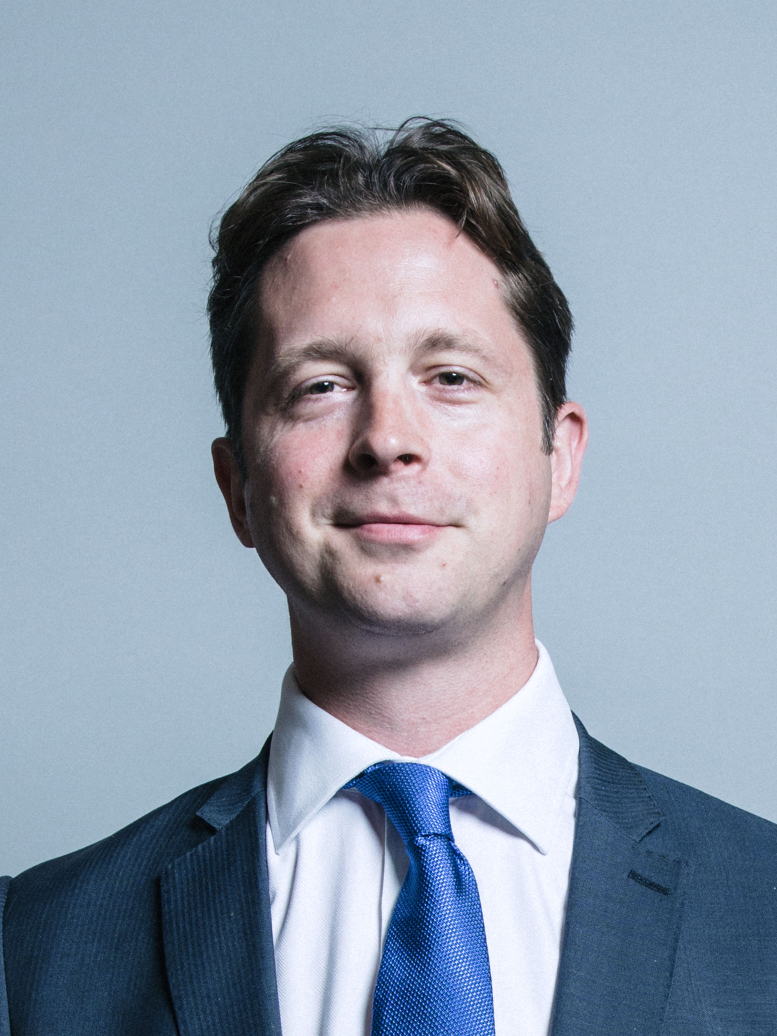 Official portrait of Alex Burghart